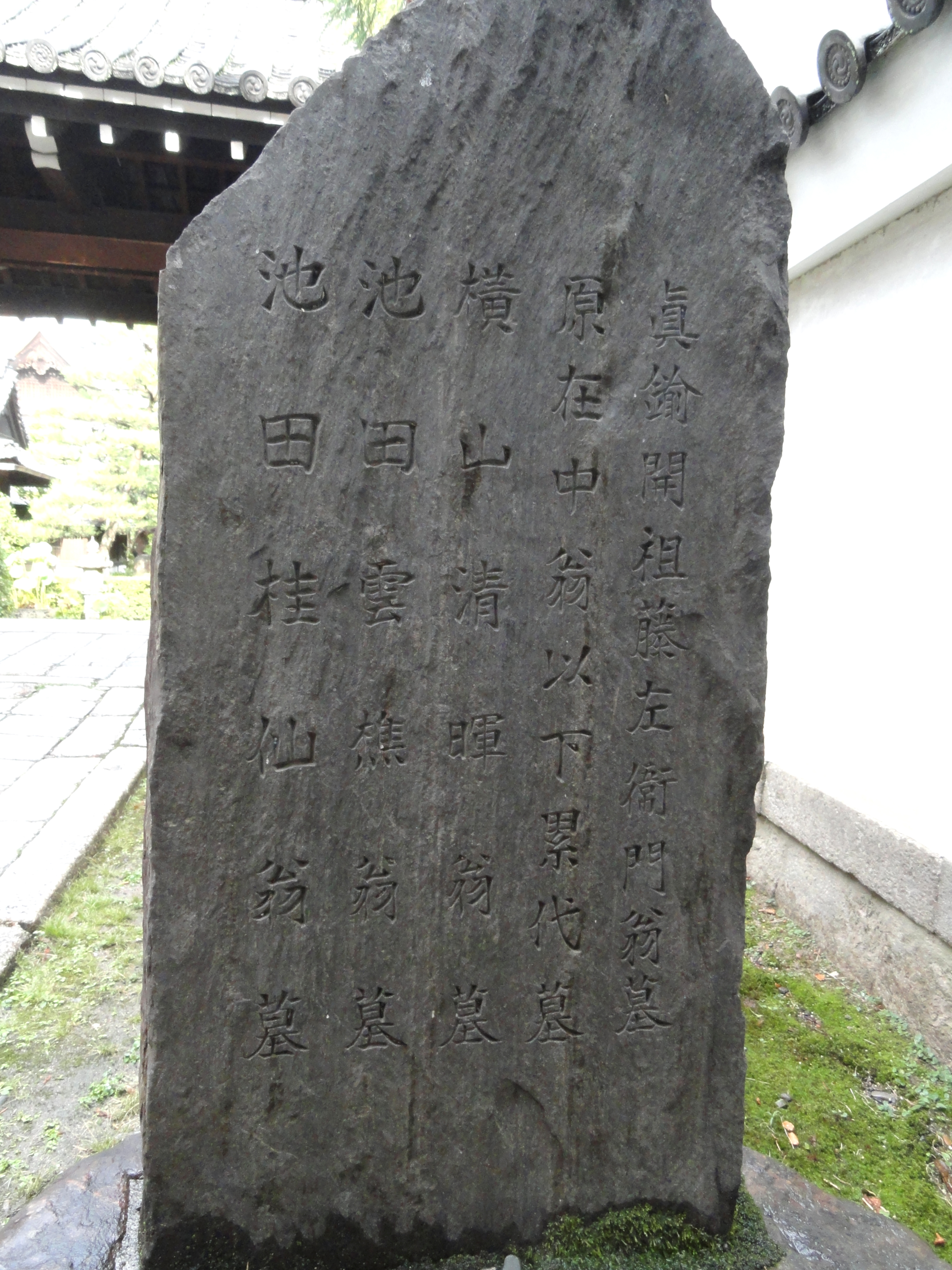 Tensho-ji (天性寺), Tenshojimaecho, Kyoto, Japan.